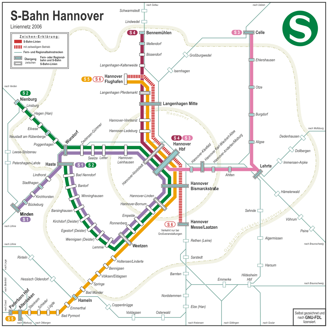 Diagram of Hanover Suburban Railway (S-Bahn) Lines